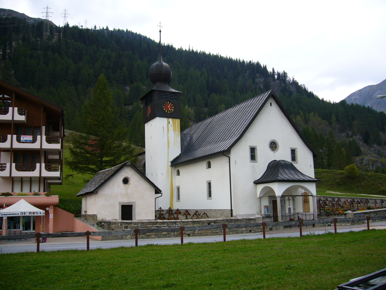 Church in the village of Oberwald, canton of Vallais, Switzerland. Picture taken by Peter Berger, October 1, 2006.